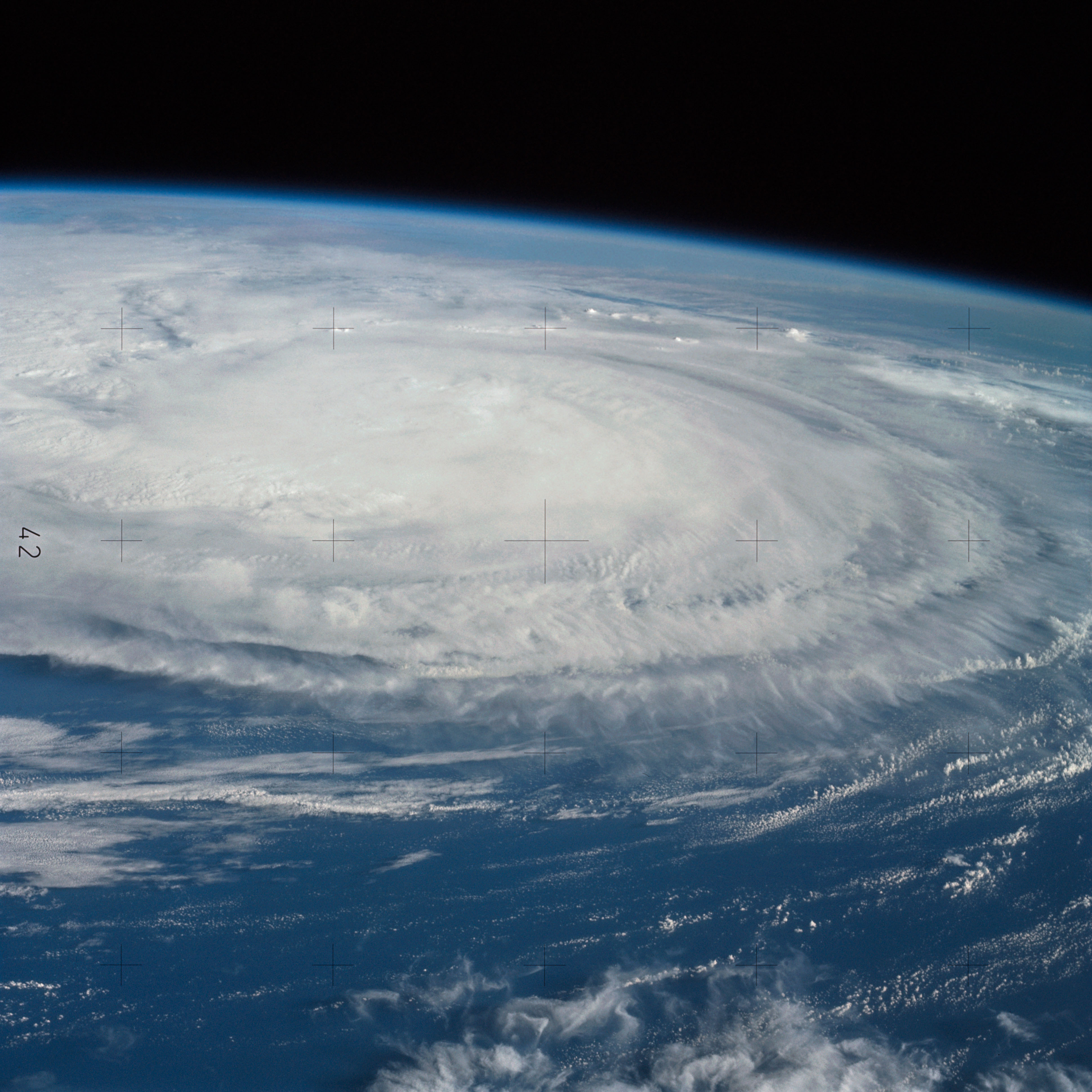 SL3-122-2587 (September 1973) --- The swirling clouds of Hurricane Ellen (31.0 degrees north, 54.0 degrees west) over the Atlantic Ocean are shown clearly in this 70mm photograph taken by the Skylab 3 crew members. No well defined eye is apparent; a cirrus cloud cap covers the storm, with wisps of the ice crystal layer of this cloud visible even beyond the storm and strong pattern of rotating clouds.